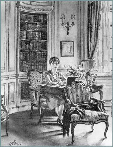 Mrs Otto H Kahn dated 1928